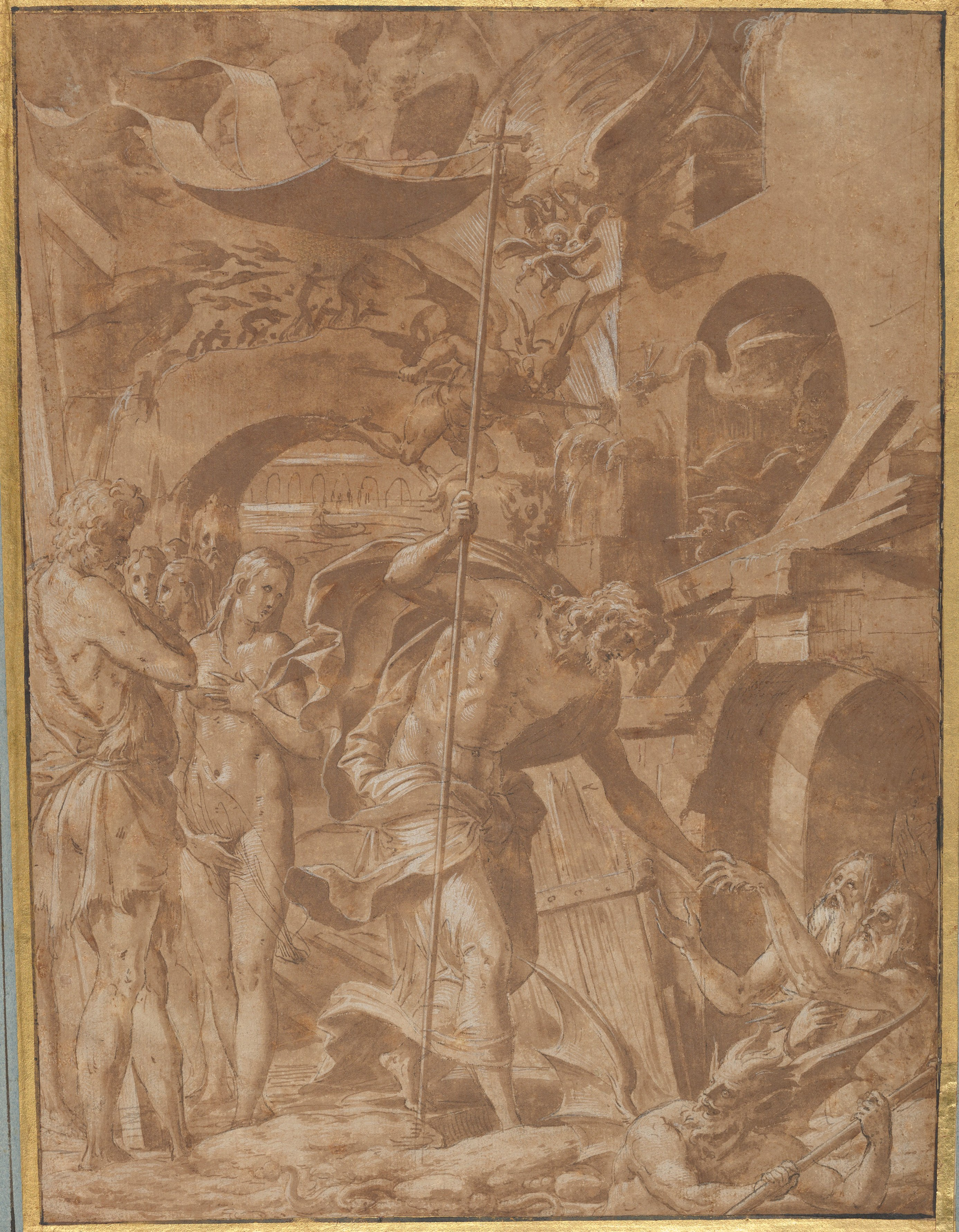 Luca Penni, Christ in Limbo. Black chalk, pen and brown ink, brush and brown wash, highlighted with brush and white gouache, on paper prepared with pale brown wash; outlines incised for transfer. Dimensions: Sheet: 14 1/2 × 10 5/8 in. (36.8 × 27 cm)